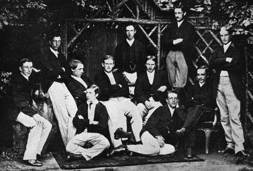 The Eton College cricket XI in 1866 Back: Thomas HW Pelham, H Gilliat, William Walrond. Middle: William Higgins, RNR Ferguson, Charles Thornton, Edgar Lubbock, Hon WB Barrington, JW Foley. Front: HM Walter, JC Reiby